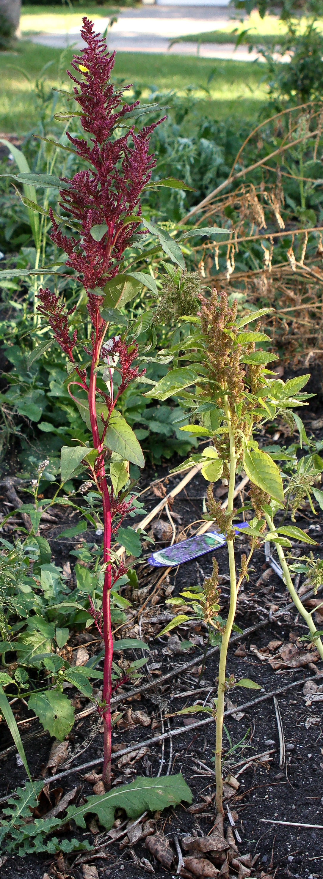 Self made image of Amaranthus hybridus a very variable species, here showing a short form with densely packed flowers and dark red or golden-green coloration. Plants are growing along side another form with more lax inflorences that grows three times as tall with green flowers.